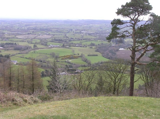 Knockmany Hill A fantastic view from the site of the burial chamber over the Clogher Valley